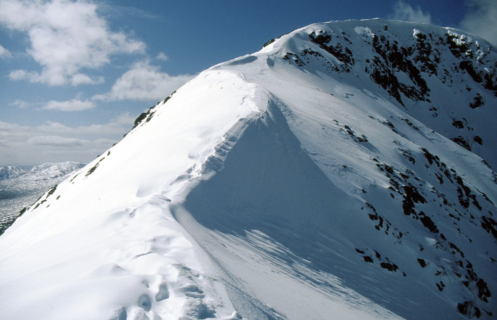 Approaching the summit of Beinn Fhionnlaidh